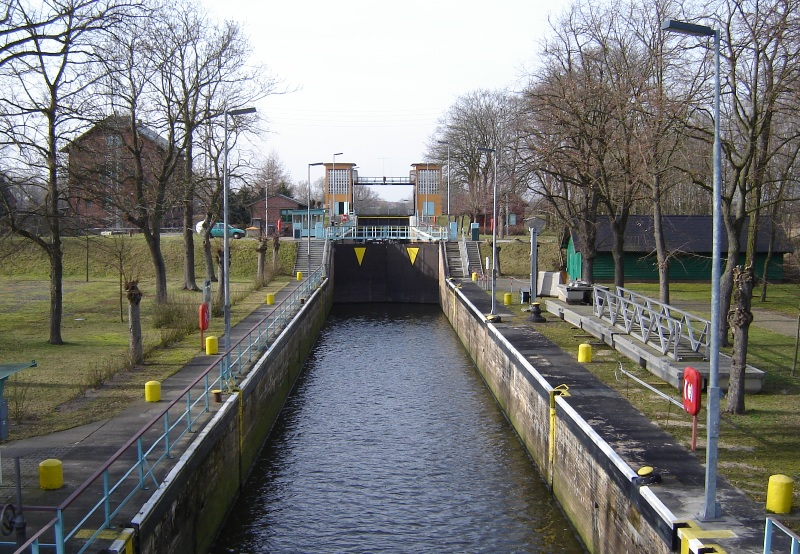 Lock in Parey, Saxony-Anhalt